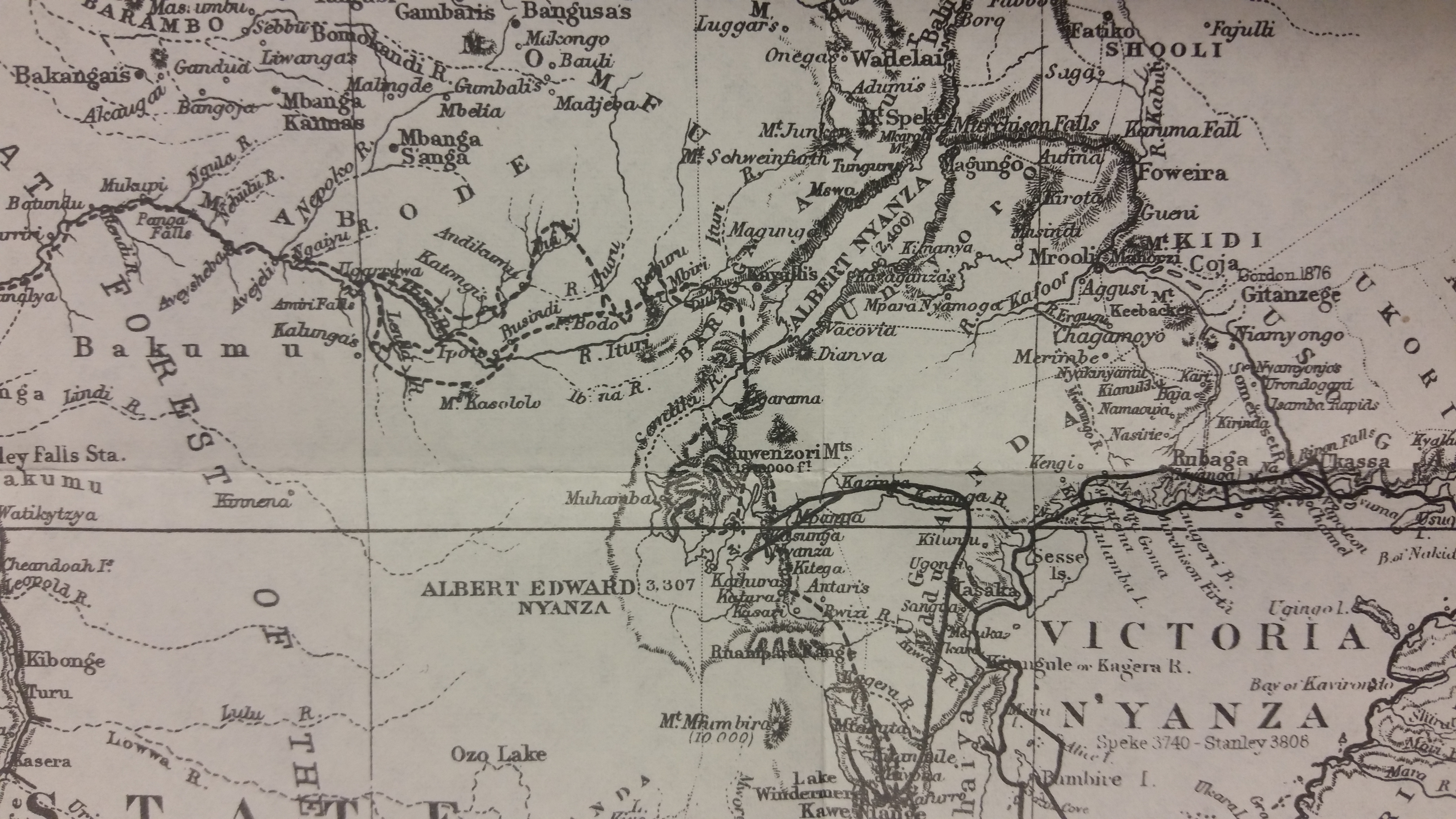 Albert Edward Nyanza. The black and dashed lines indicate Stanley's route.